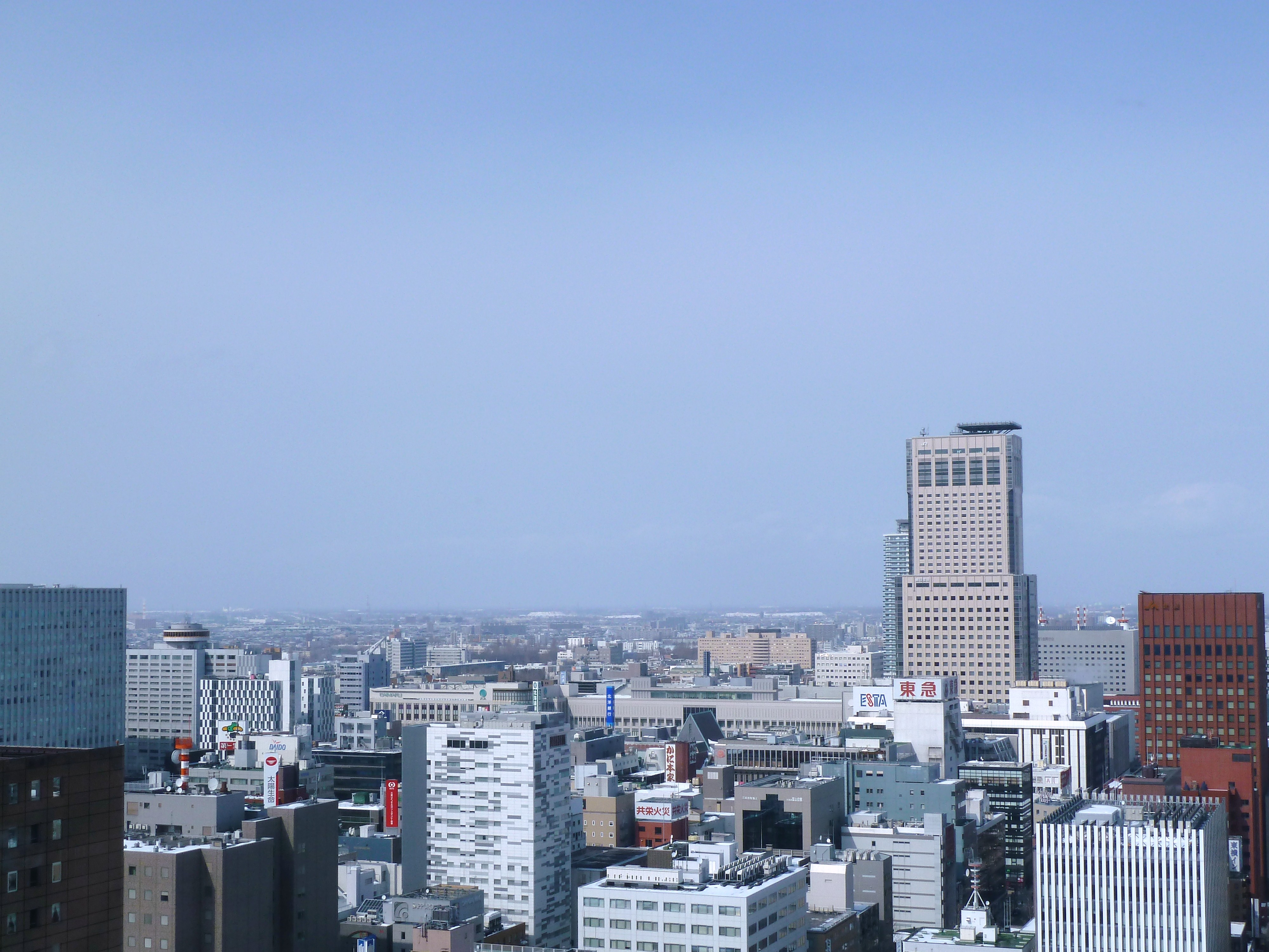 札幌駅周辺